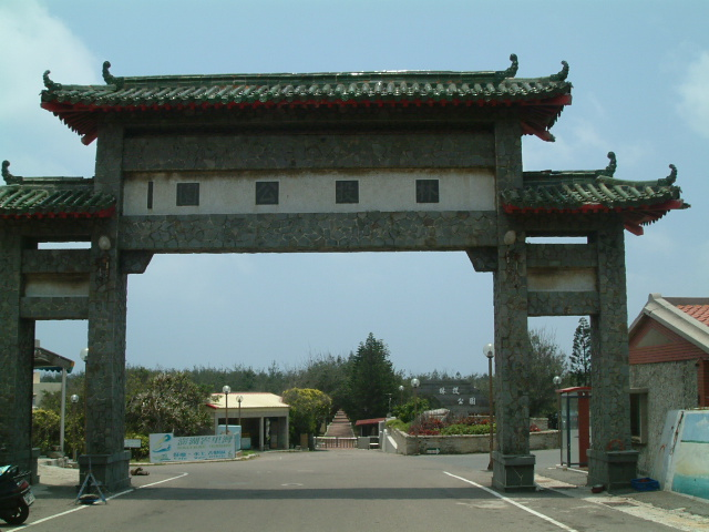 The paifang of Lintou Park loacted in Husi Twonship,Penghu County,Taiwan.